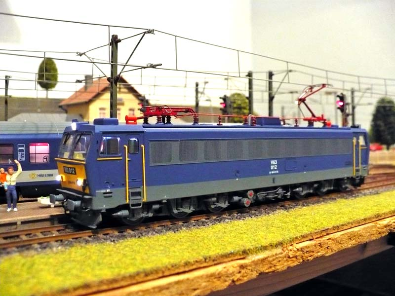 H0 scale modell of the MÁV V63 class locomotive